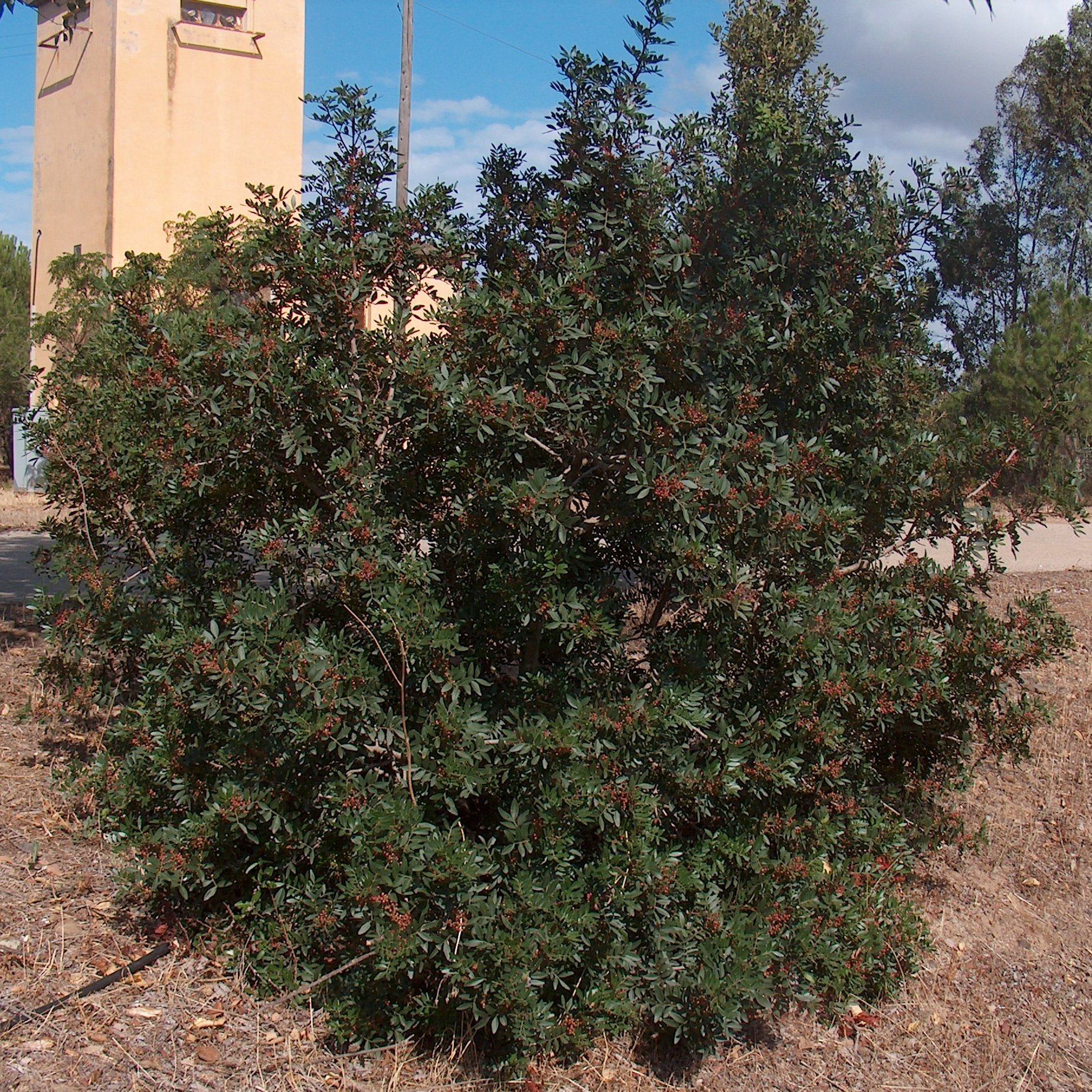 Shrub of mastic (Pistacia lentiscus L.)